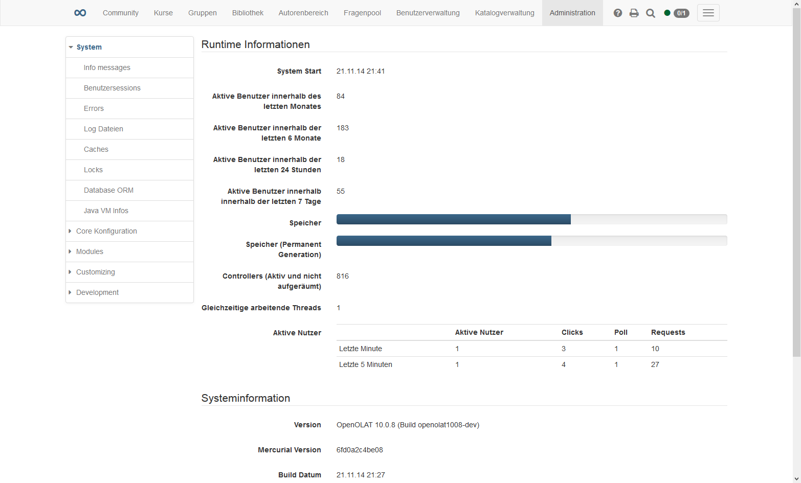 Screenshot of the Openolat admin area